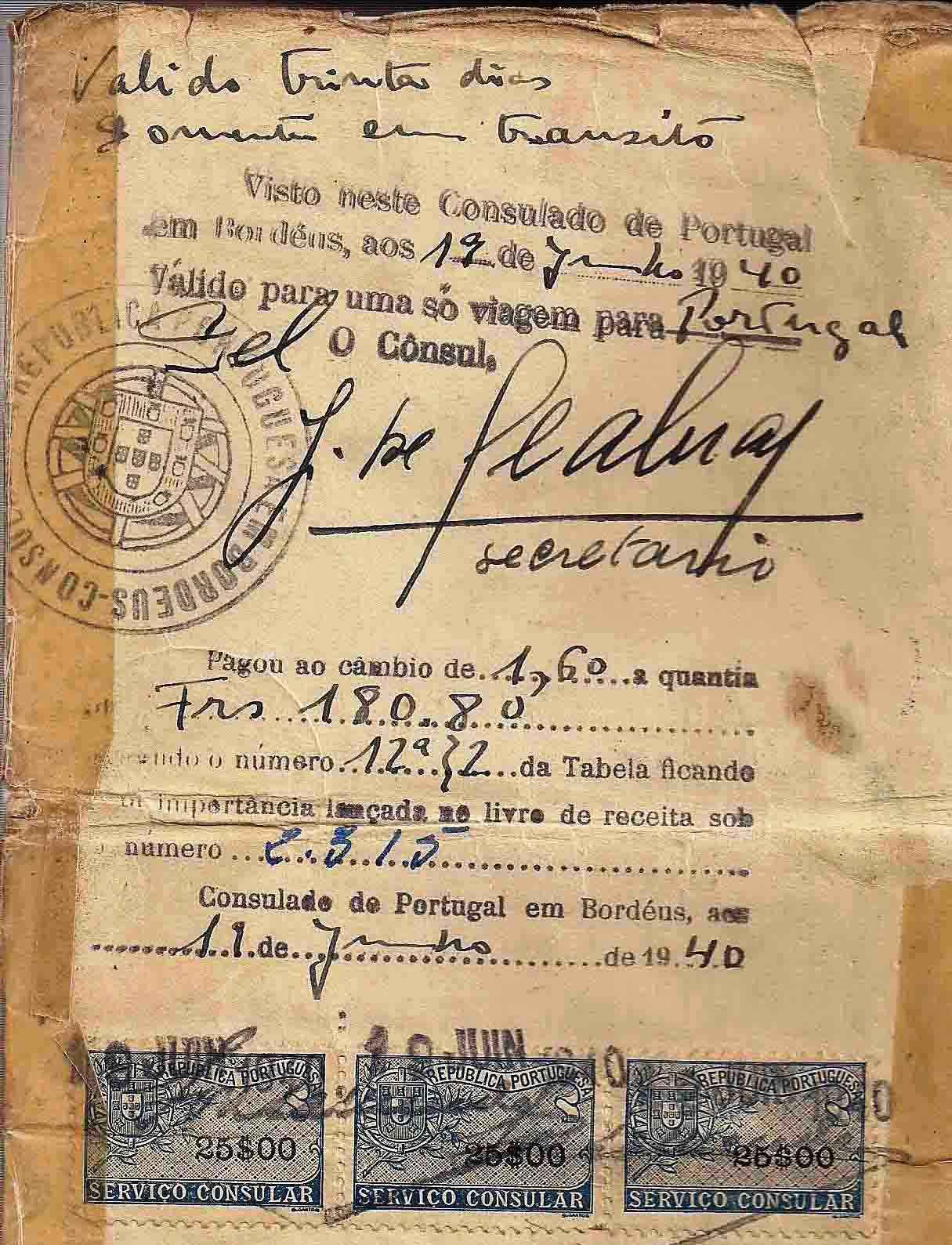 Life saving visa issued by Dr. Aristides de Sousa Mendes in June 19, 1940.